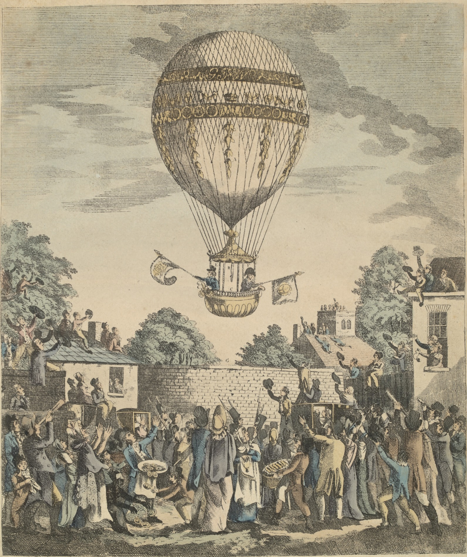 Hand coloured etching entitled 'a View of the Balloon of Mr Sadler's ascending with him and Captain Paget of the Royal Navy from the Gardens of the Mermaid Theatre at Hackney on Monday Aug 12 1811'.